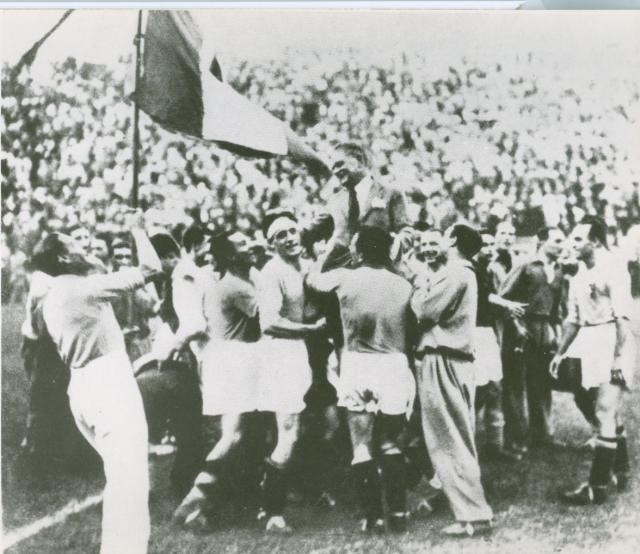 Italian coach Vittorio Pozzo is carried in triumph after Italy defeated Czechoslovakia 2-1, after extra time in the World Cup Final, to win the Rimet Cup, June 10 1934, at the Fascist National Party Stadium in Rome, Italy.